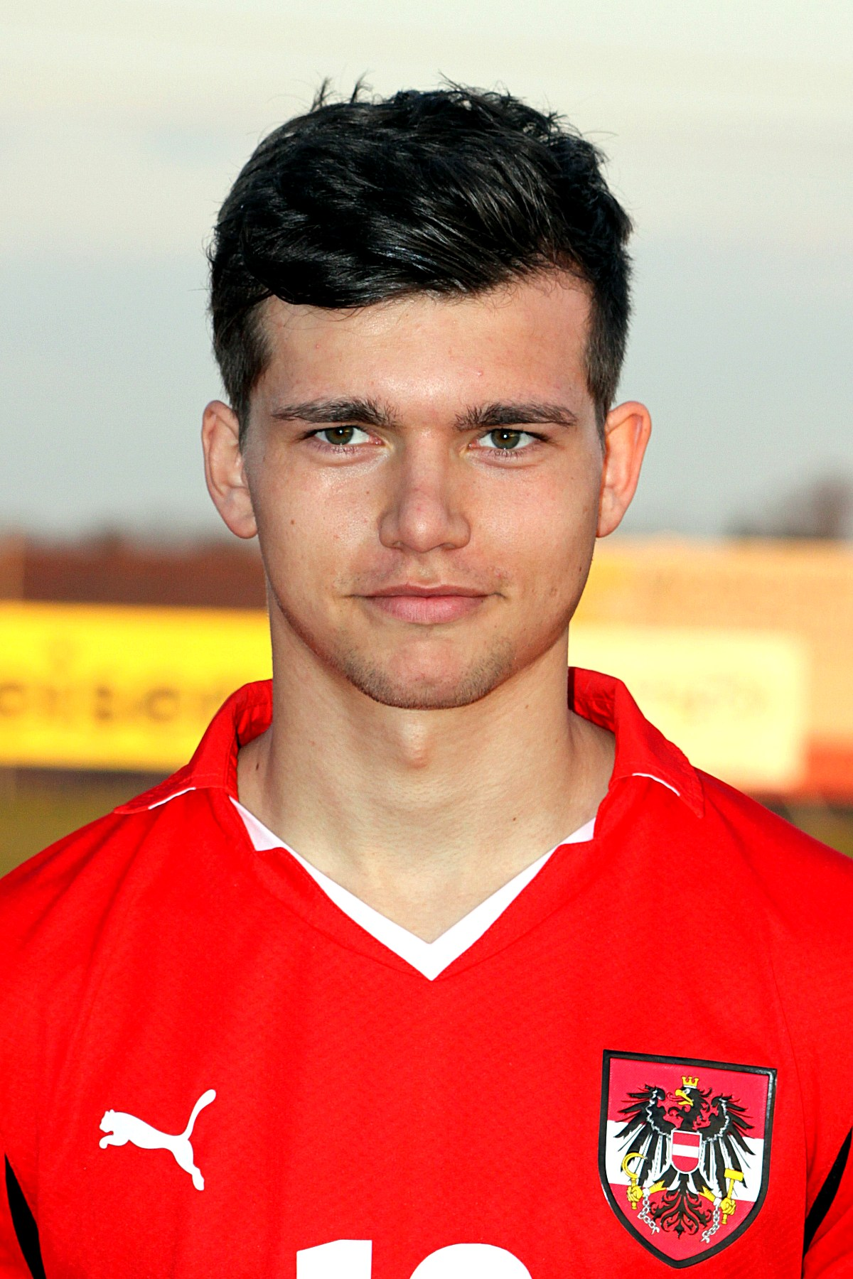 Kevin Stöger (VfB Stuttgart) - in the U-19-friendly match Austria (class 1993) vs. Slowakia (class 1993). Object location47° 44′ 53.87″ N, 16° 28′ 58.97″ E